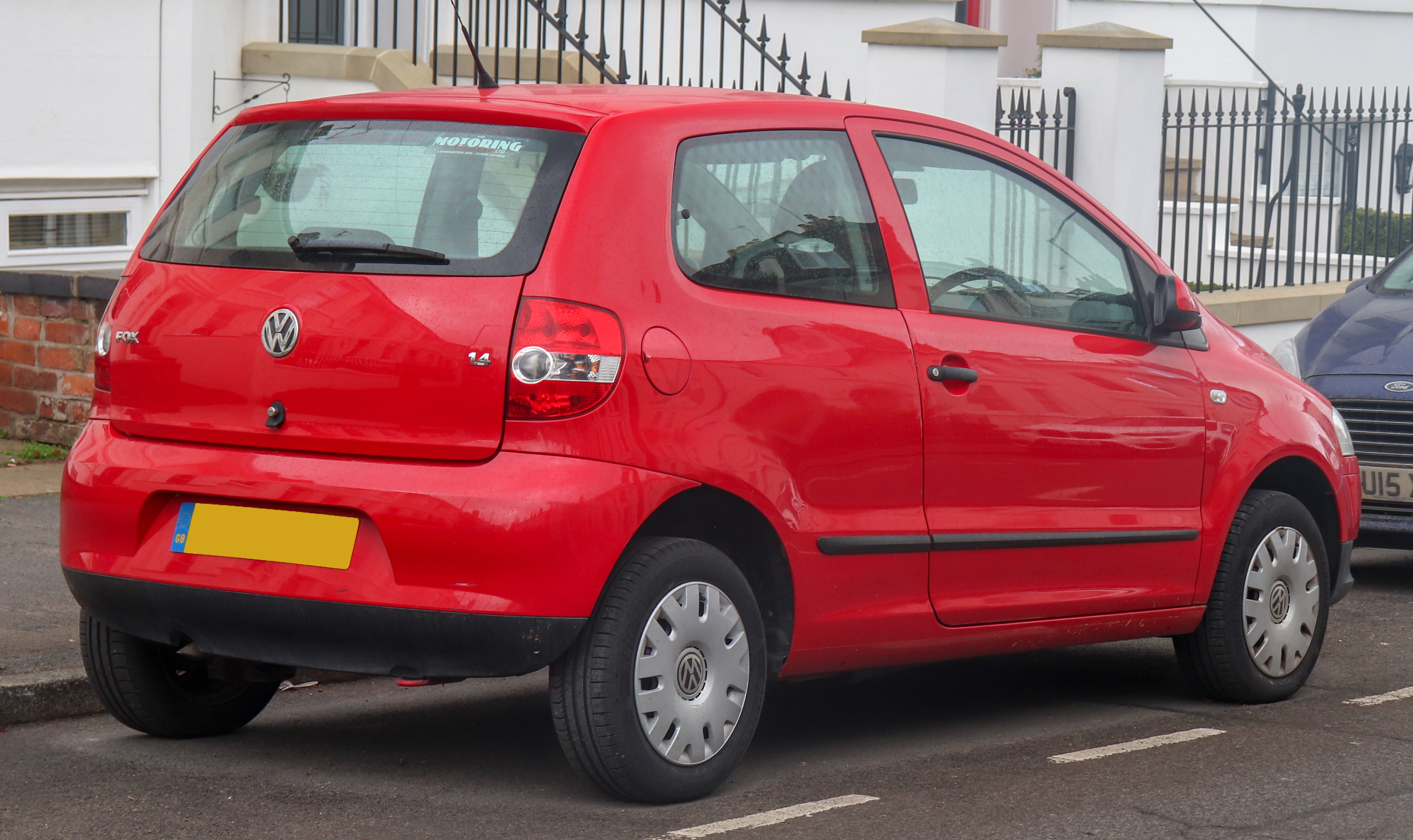 2008 Volkswagen Urban Fox 75 1.4 Rear Taken in Leamington Spa